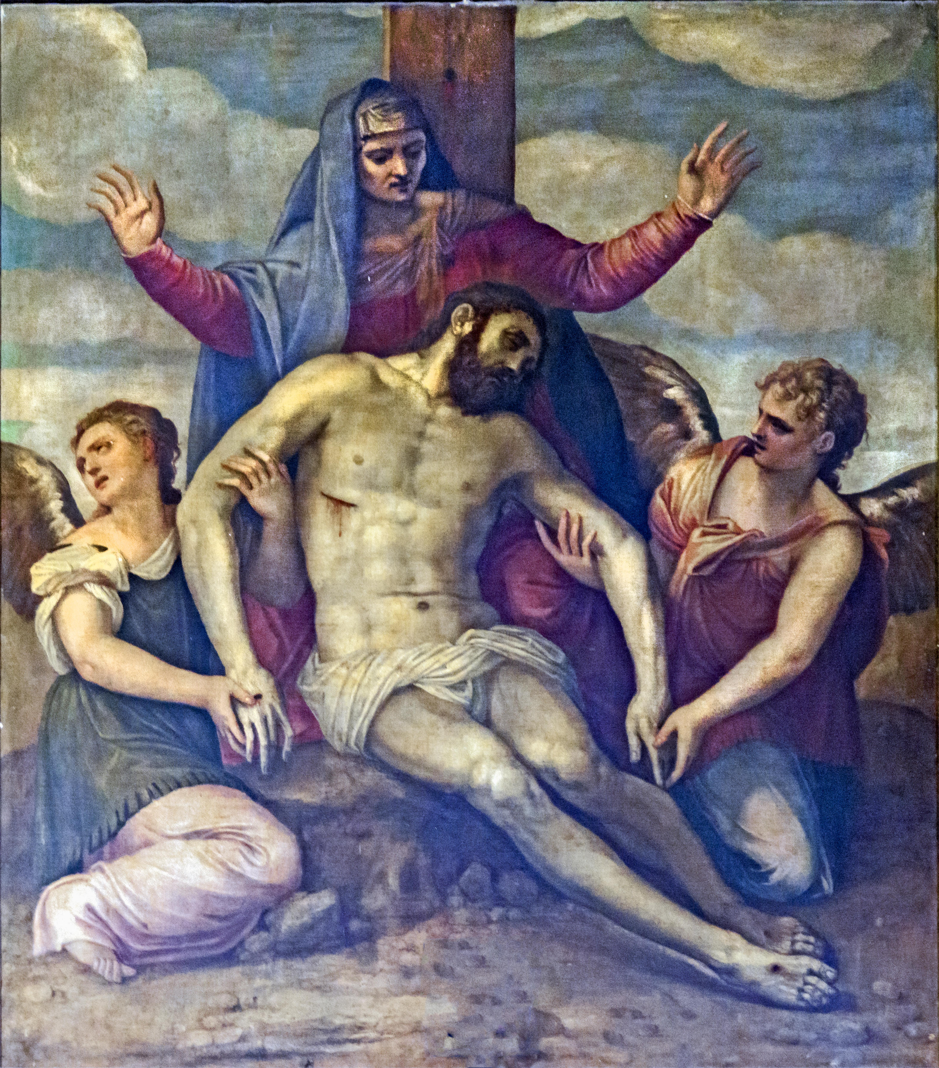 The lamentation of Christ by Gian Battista Zelotti.